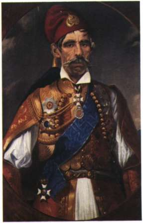 Gennaios Kolokotronis, son of Theodoros Kolokotronis, and last prime minister (1862), of King Otto. Oil in canvas, National and Istorical Museum of Athens